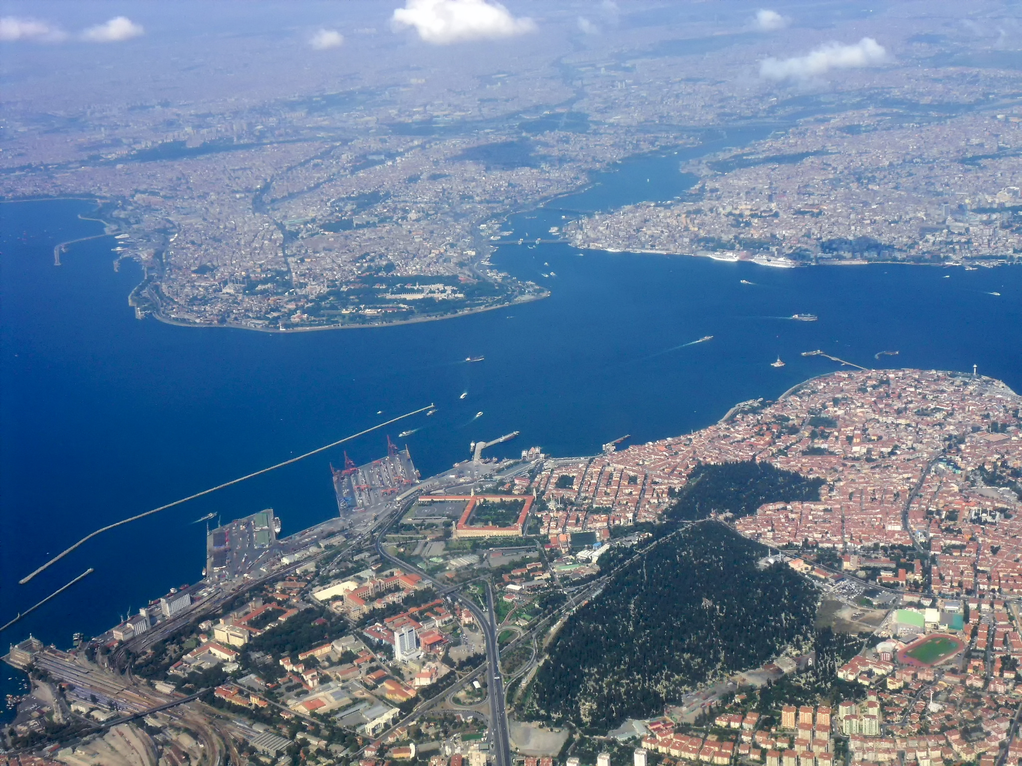 Heart Of İstanbul From Air